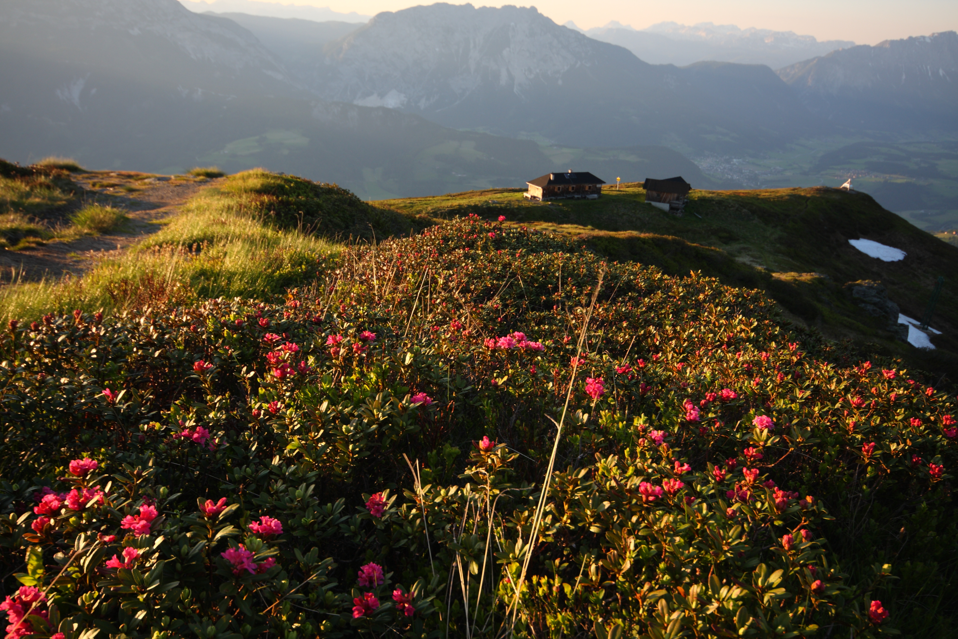 Pleschnitzzinken 2112 m, Pruggern, Styria, Austria